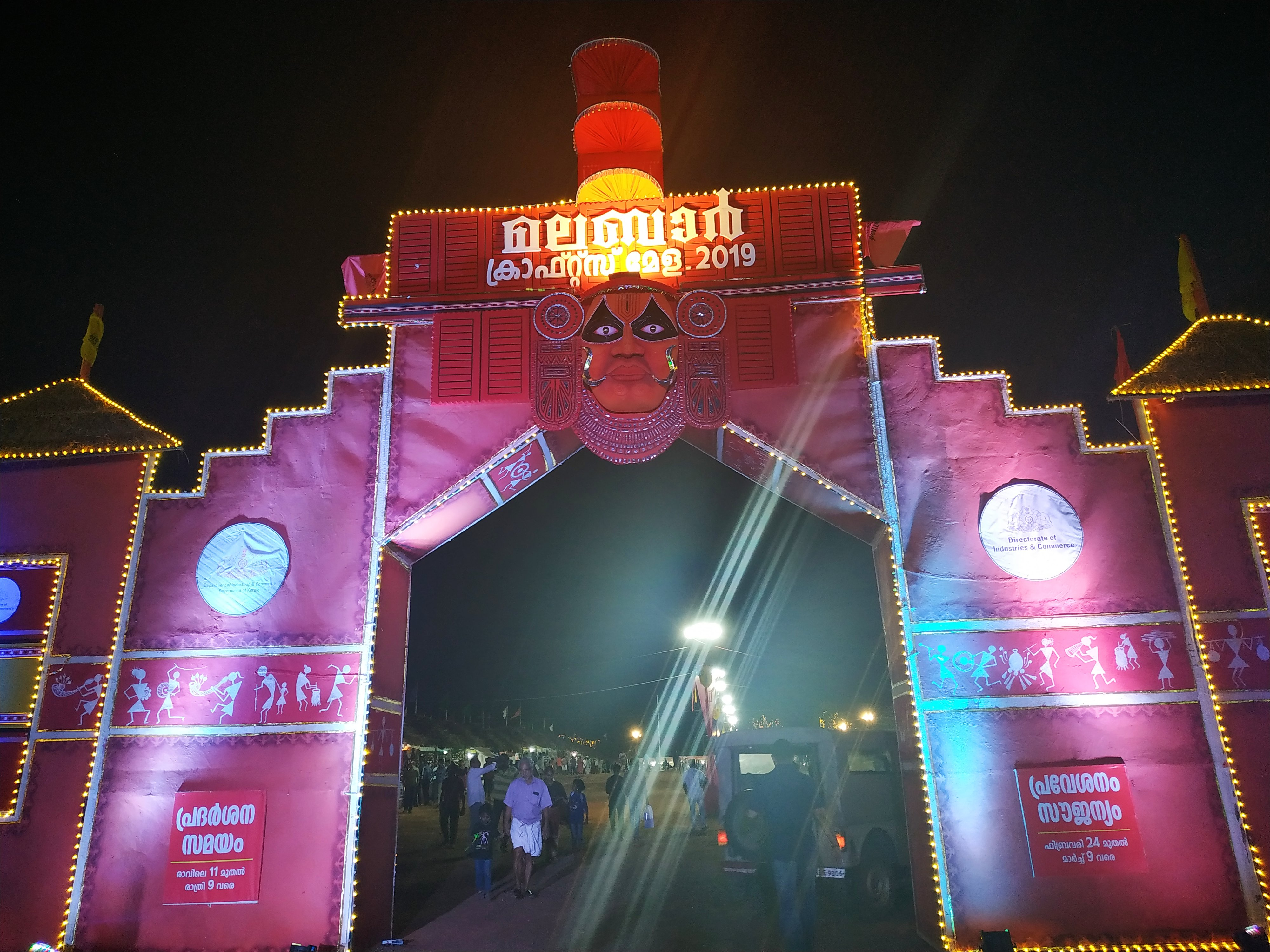 Malabar Crafts Mela 2019 at Kannur from Feb 24 – Mar 9